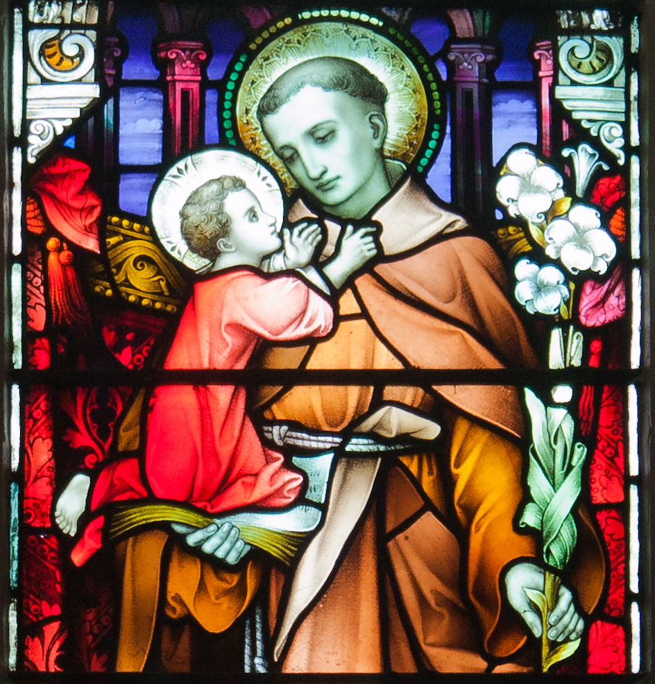 Detail of right stained glass window of the sixth bay of the east aisle, depicting Saint Anthony of Padua.